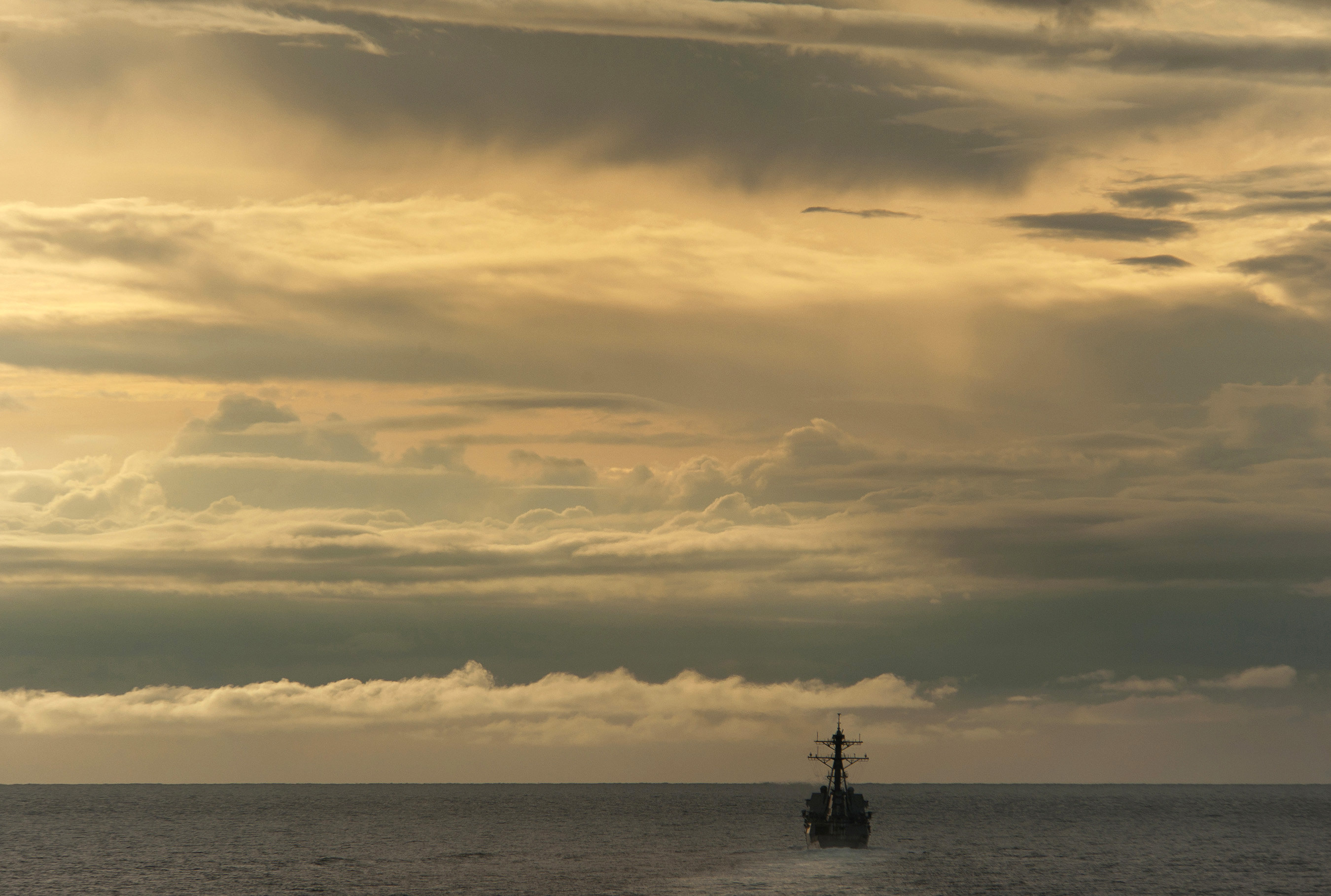 SURIGAO STRAIT (May 28, 2011) The Arleigh Burke-class guided-missile destroyer USS Gridley (DDG 101) is underway as part of Carrier Strike Group (CSG) 1 in the U.S. 7th Fleet area of responsibility. (U.S. Navy photo by Mass Communication Specialist 2nd Class James R. Evans/Released)